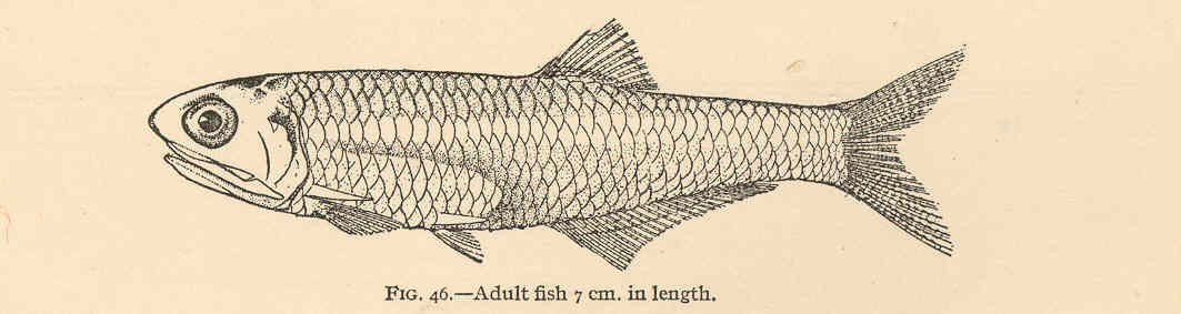 Anchoa mitchilli Adult fish 7 cm in length Subject: Anchova mitchilli--Development, Anchovies--Development Tag: Fish